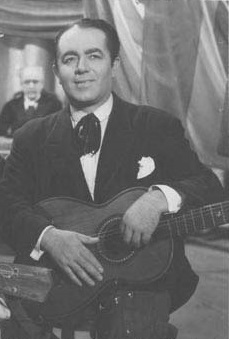 Lito Bayardo- actor y cantante